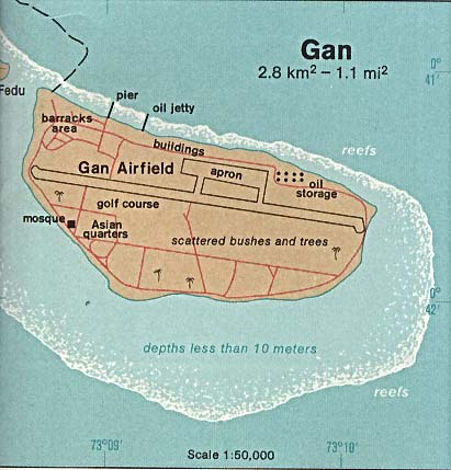 Map of Gan Island, Addu Atoll, Maldives